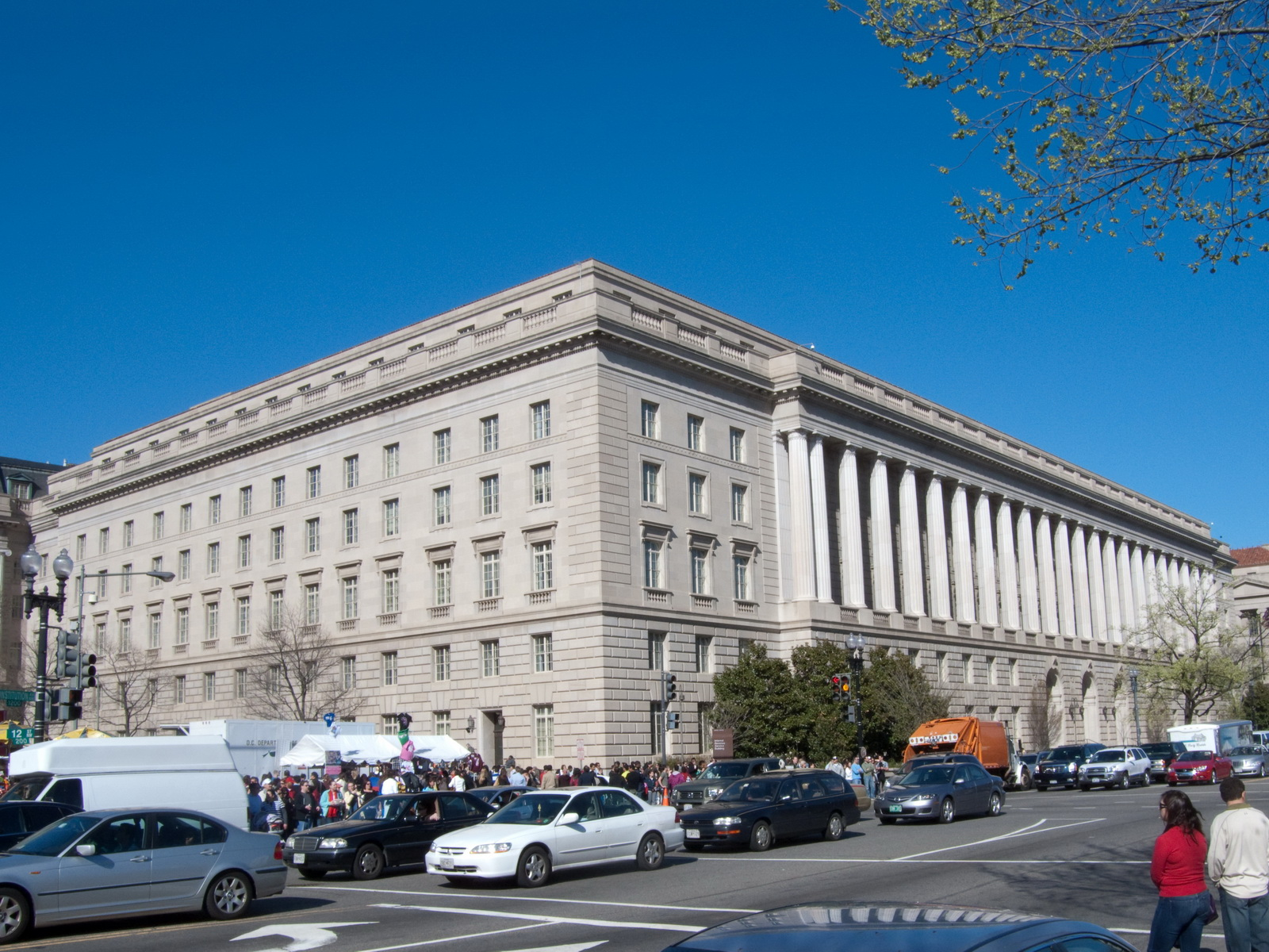 The IRS headquarters building was closed in June 2006 as a result of heavy flooding. According to a July 12, 2006 letter from Senator Max Baucus (Dem.-Montana), a ranking member of the U.S. Senate Finance Committee, the sub-basement of the building was filled with water to a depth of twenty feet, and electrical and maintenance equipment in the sub-basement was about 95% damaged or destroyed. The IRS and the General Services Administration announced that the building would remain closed through late 2006. The employees who worked in the building – numbering over two thousand – had been temporarily transferred to other offices at 15 other buildings in the Washington, D.C. area. Computerworld reported that some IRS employees were also allowed to telecommute while the building was closed.